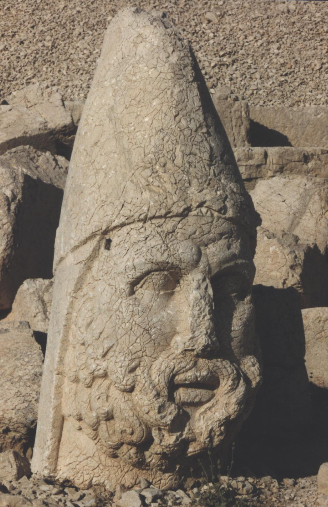 Head of Statue, Mnt Nemrut Dagi, Turkey.